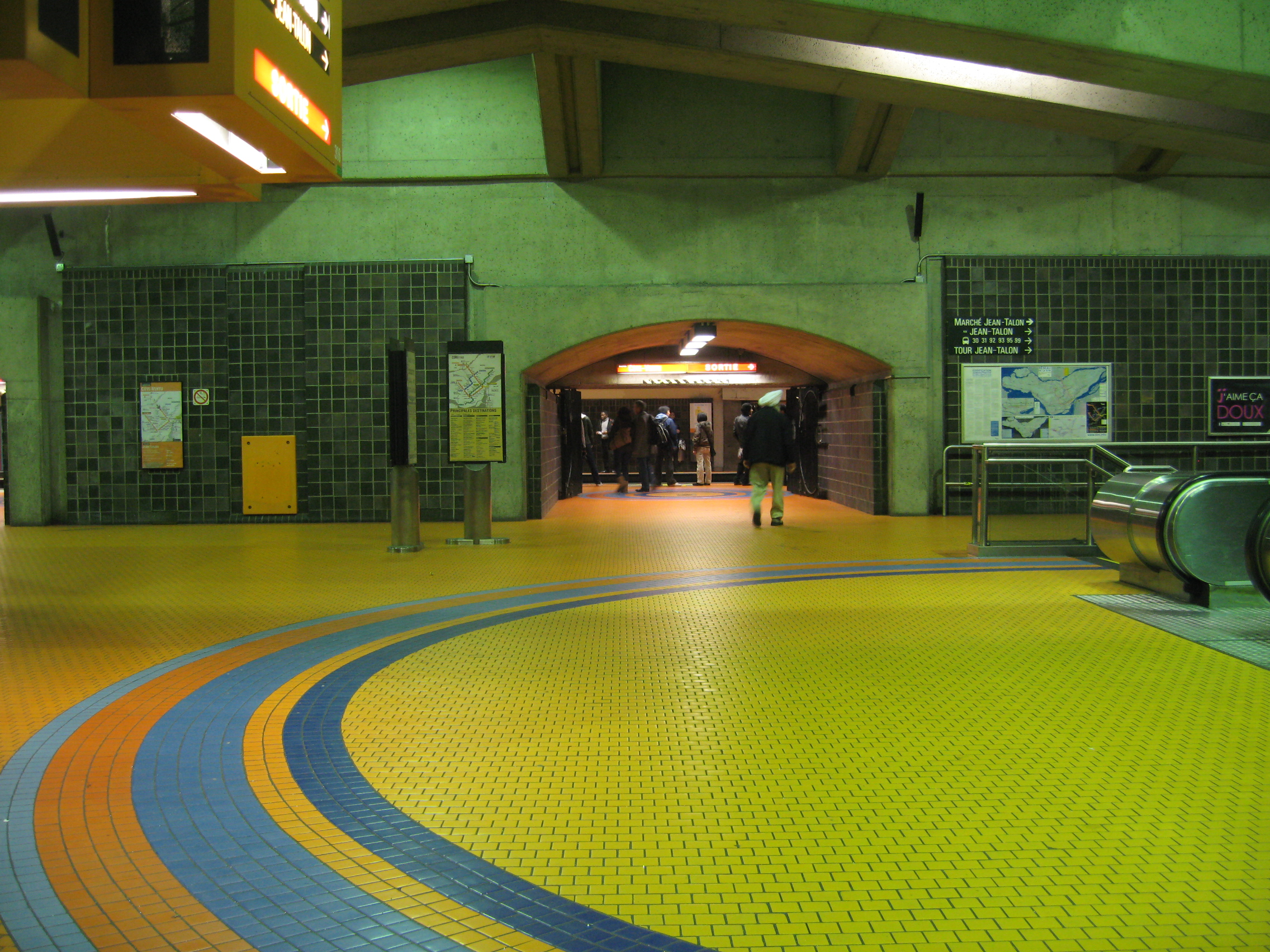 Subway station "Jean Talon" in Montreal / CA. Design by architect Gilbert Sauvé with emaux de Briare Sialex line.